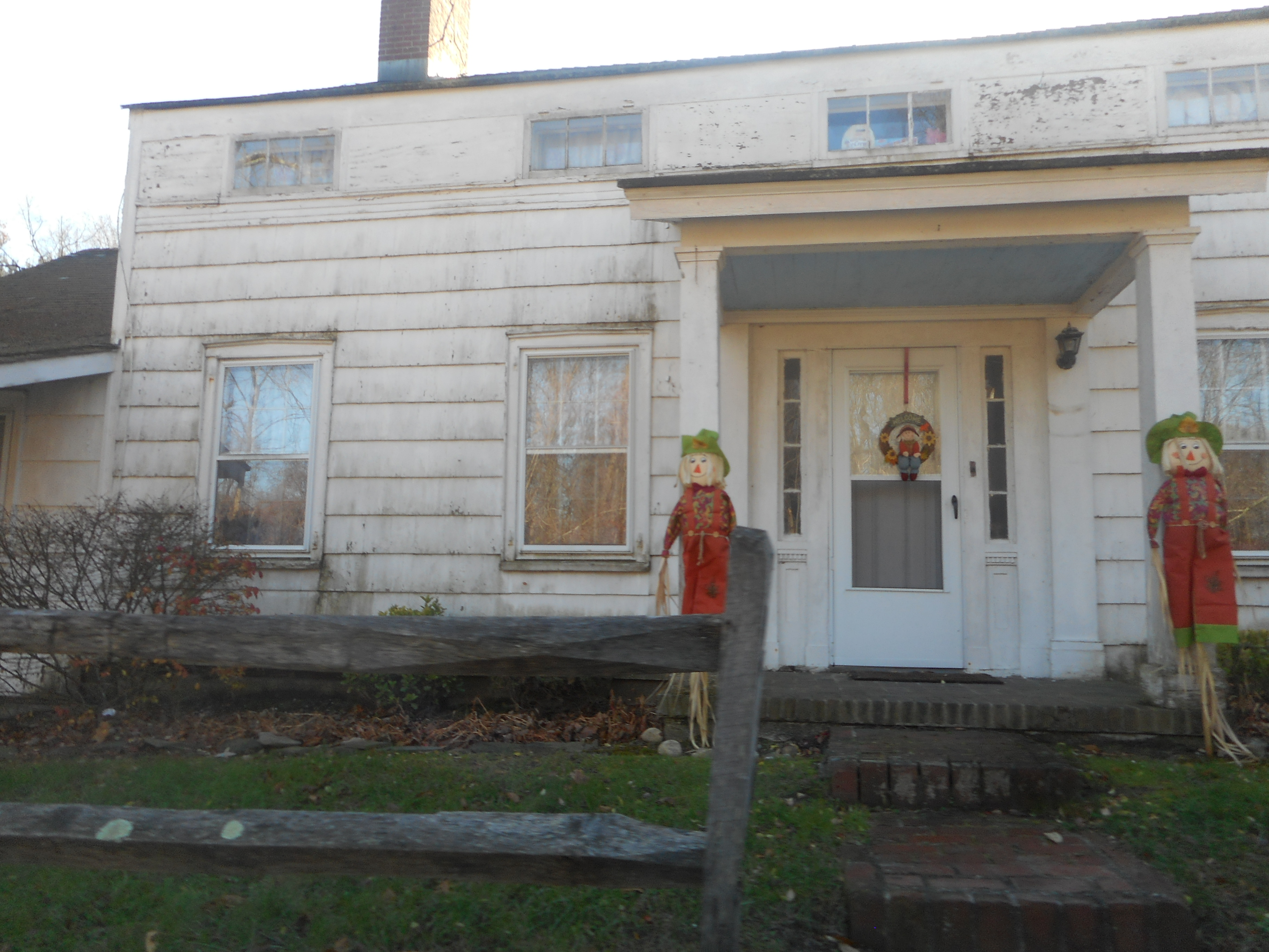 Quick roadside shot of the Jacob Smith House at 10 Highhold Drive within West Hills County Park in West Hills, New York. The road is too narrow for anything else but a shot like this if you're in a moving car.